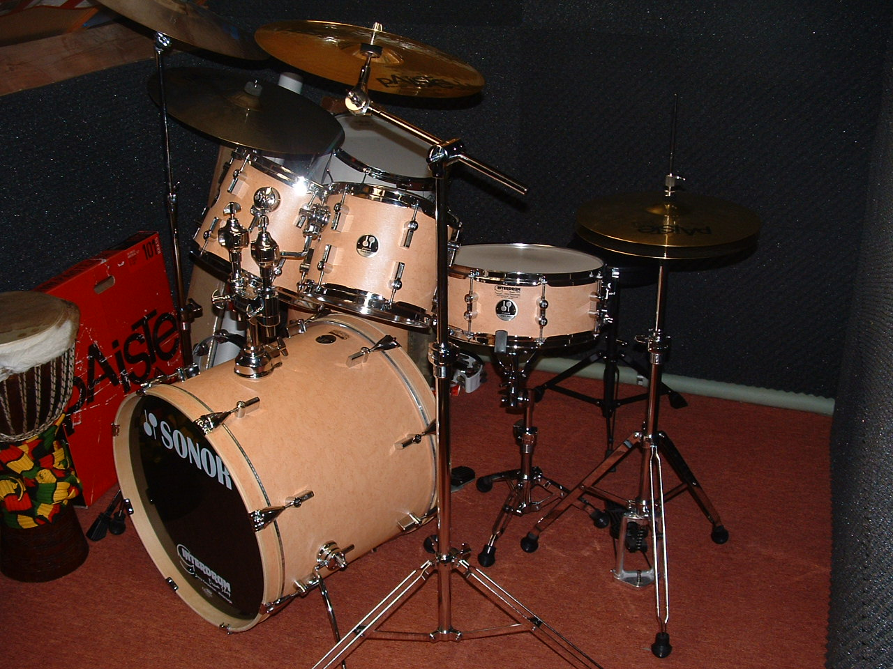 My Sonor 1007 drumkit